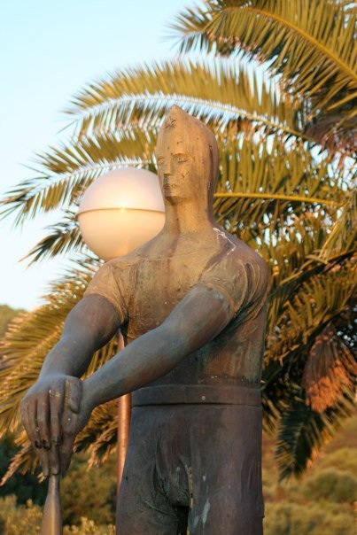 Sculpture on war memorial in Soline, Dugi otok, Croatia